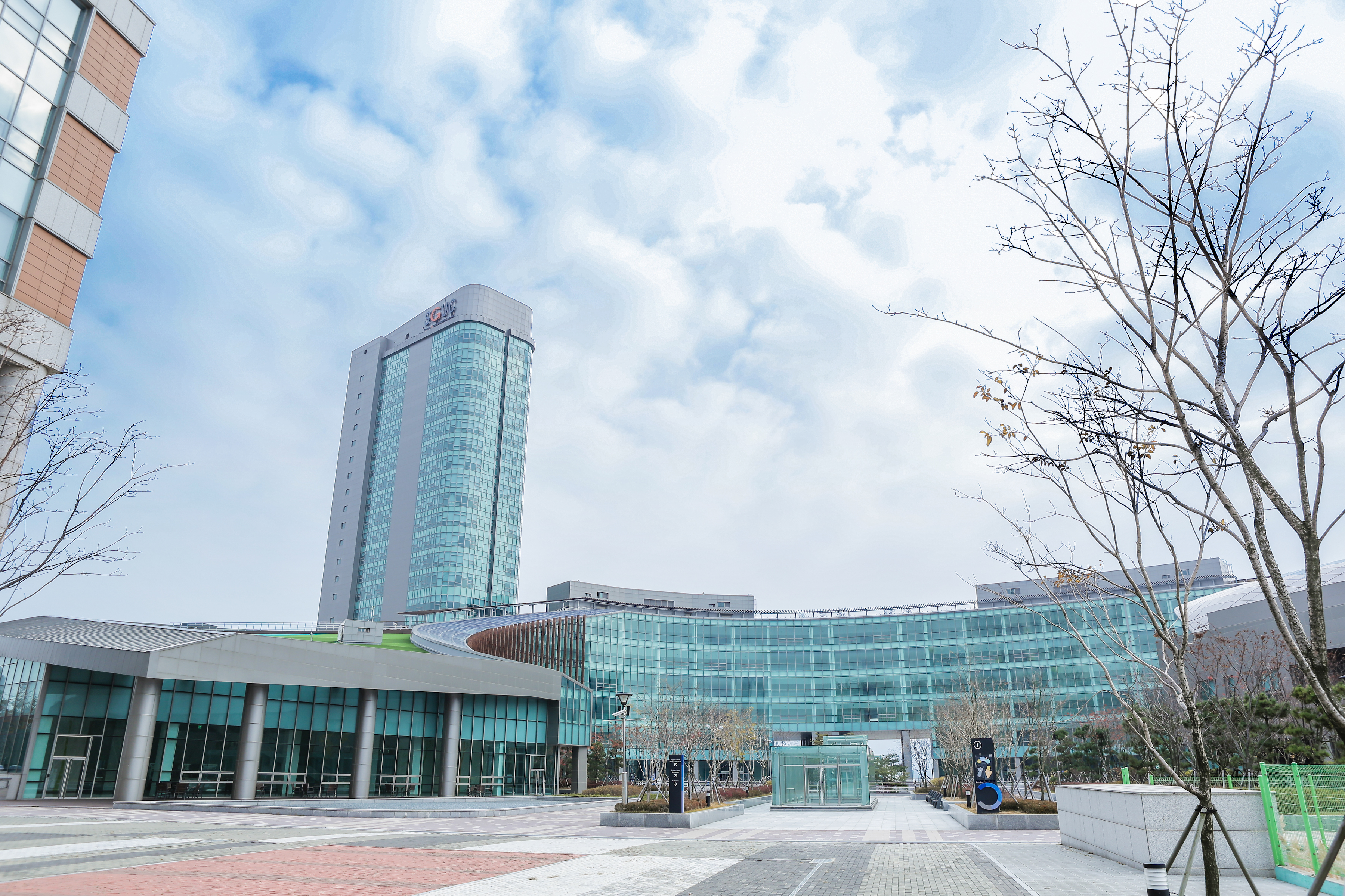 George Mason University's new campus in Songdo, Korea, which has been dubbed Mason Korea. Photo by Ji Kang